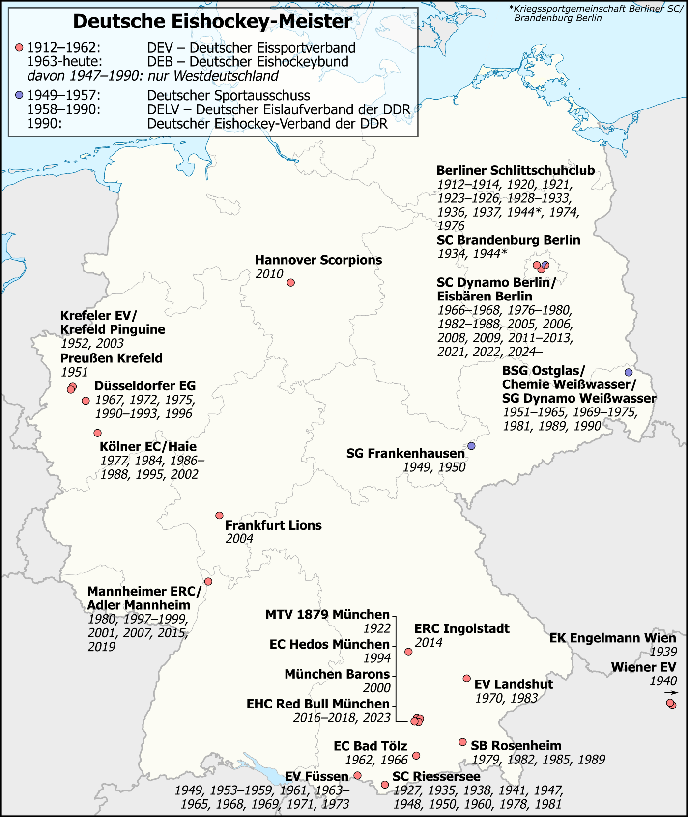 Map of German Hockey Champions, starting 1912